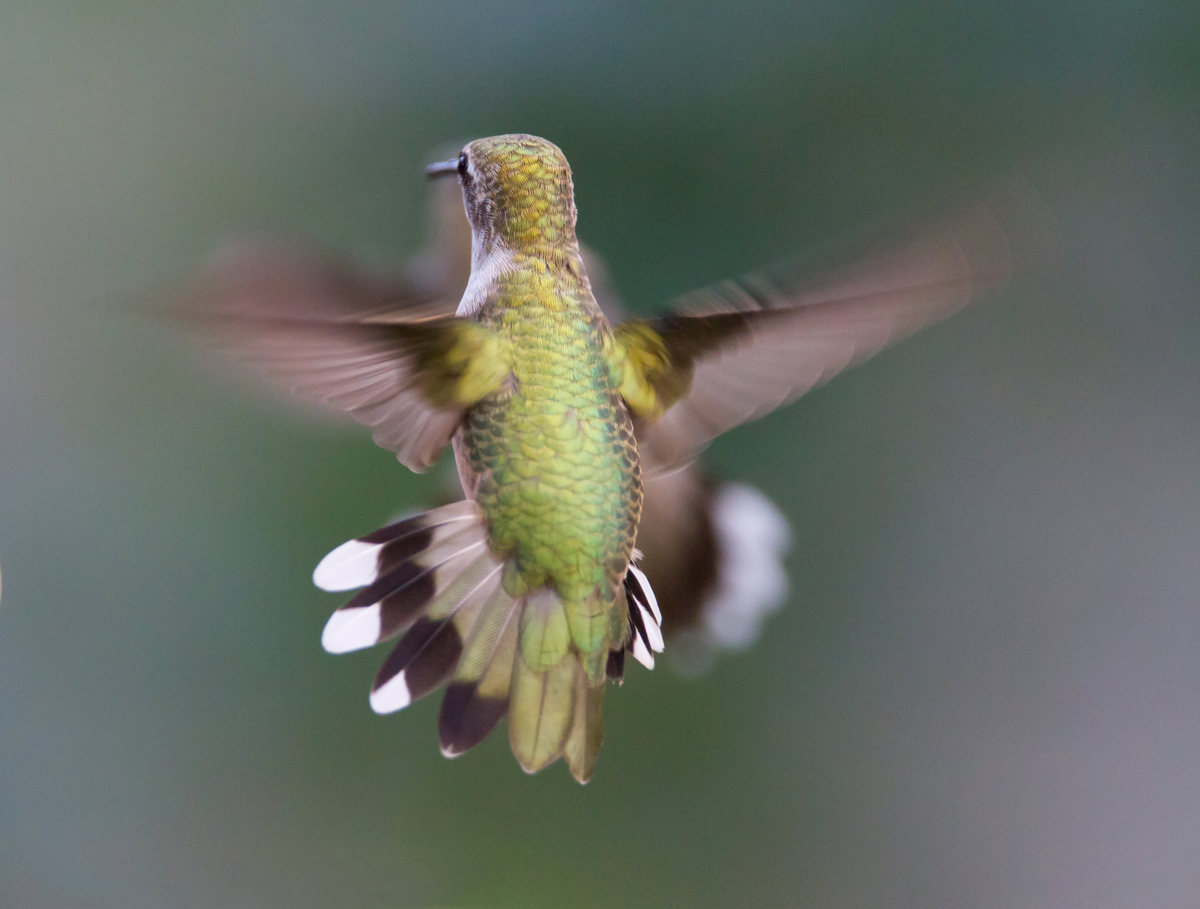 Hummingbird aerodynamics of flight